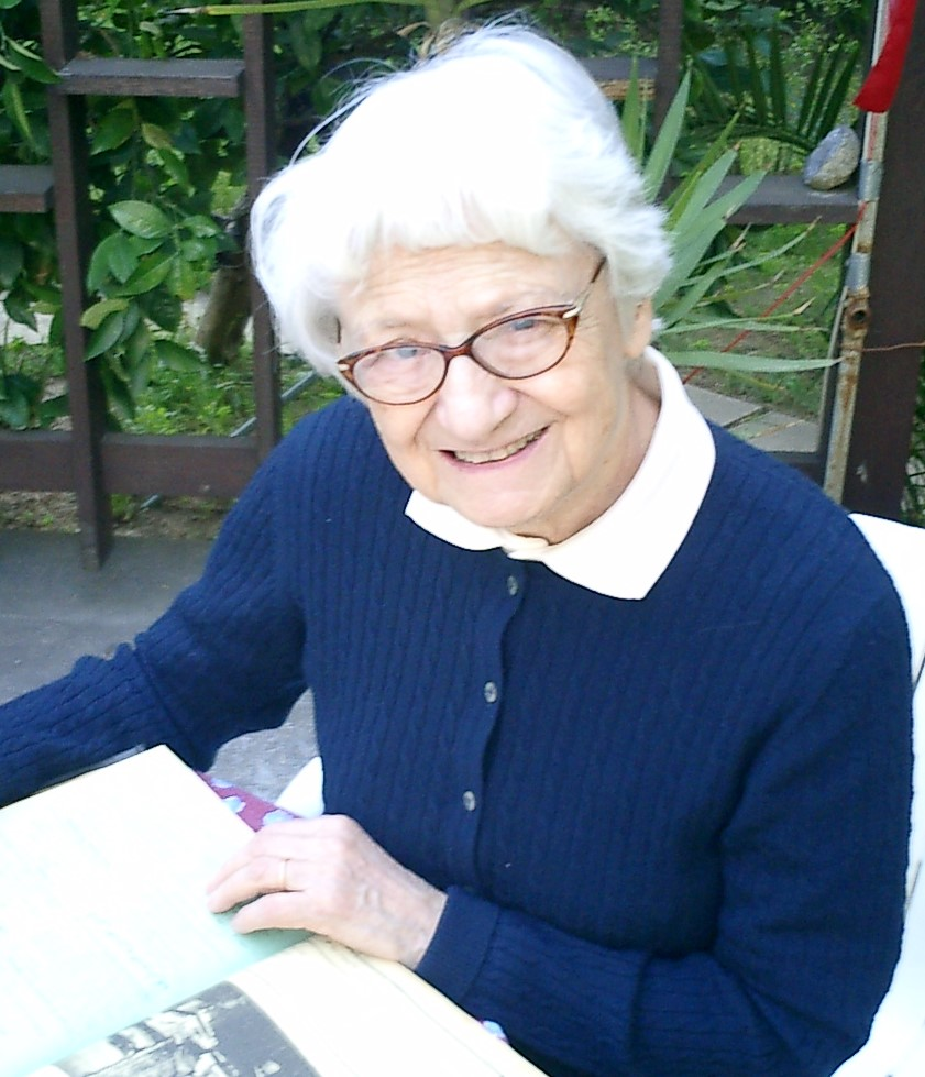 Turkish botanist, pharmacist and plant collector.